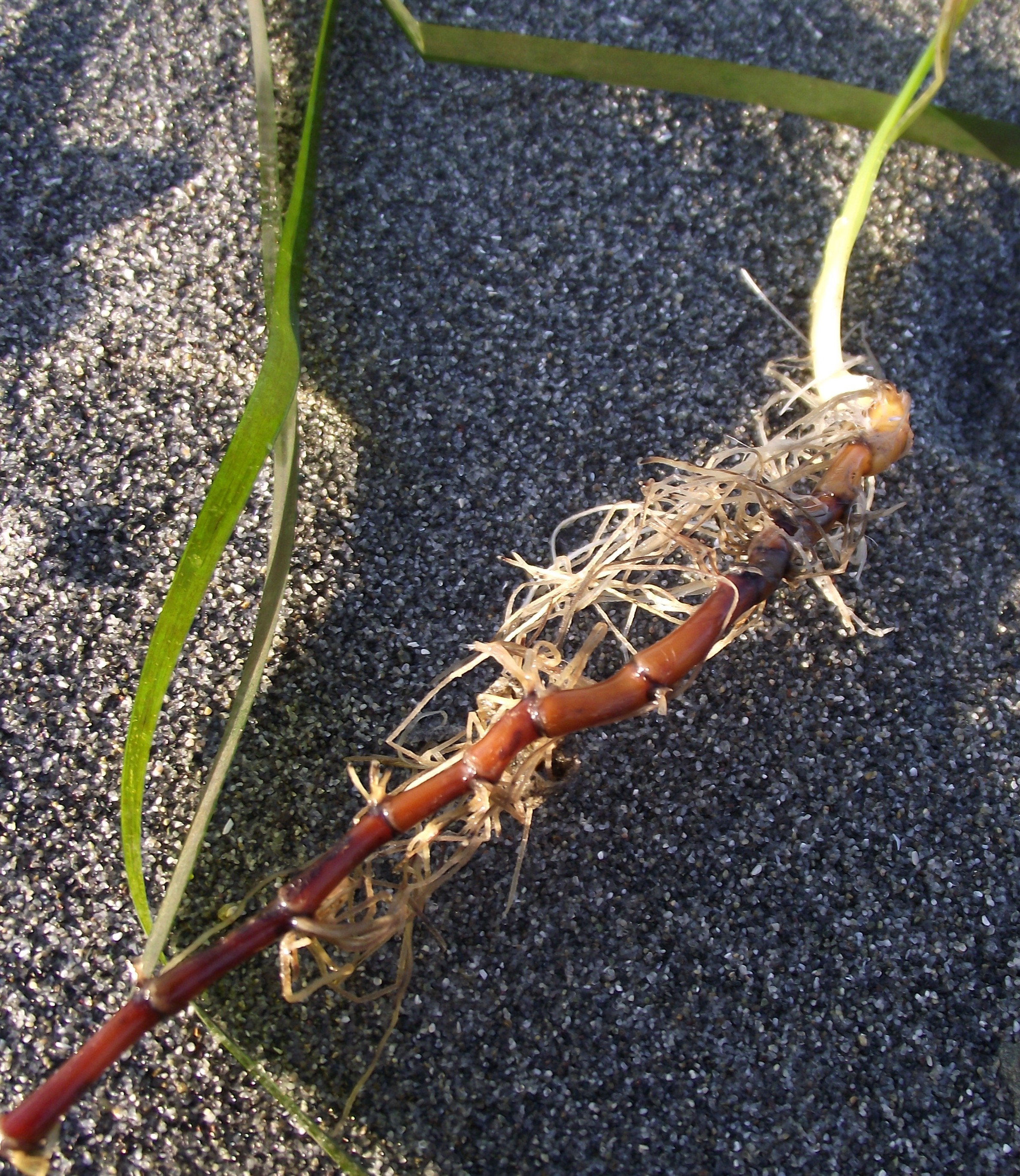 Rhizome of Zostera marina on the beach at Carkeek Park, Seattle, Washington, USA.